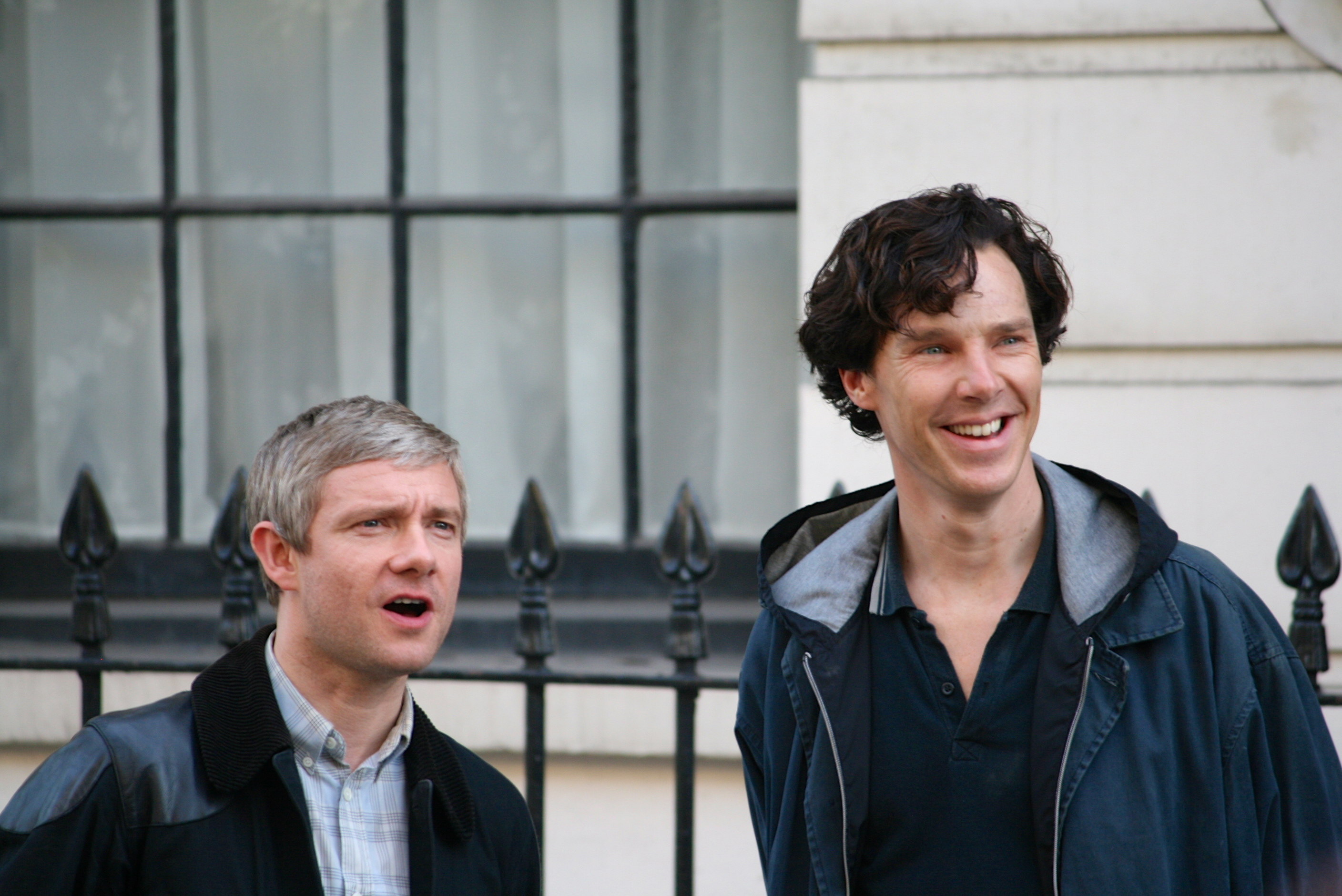 Martin Freeman + Benedict Cumberbatch while filming "Sherlock"